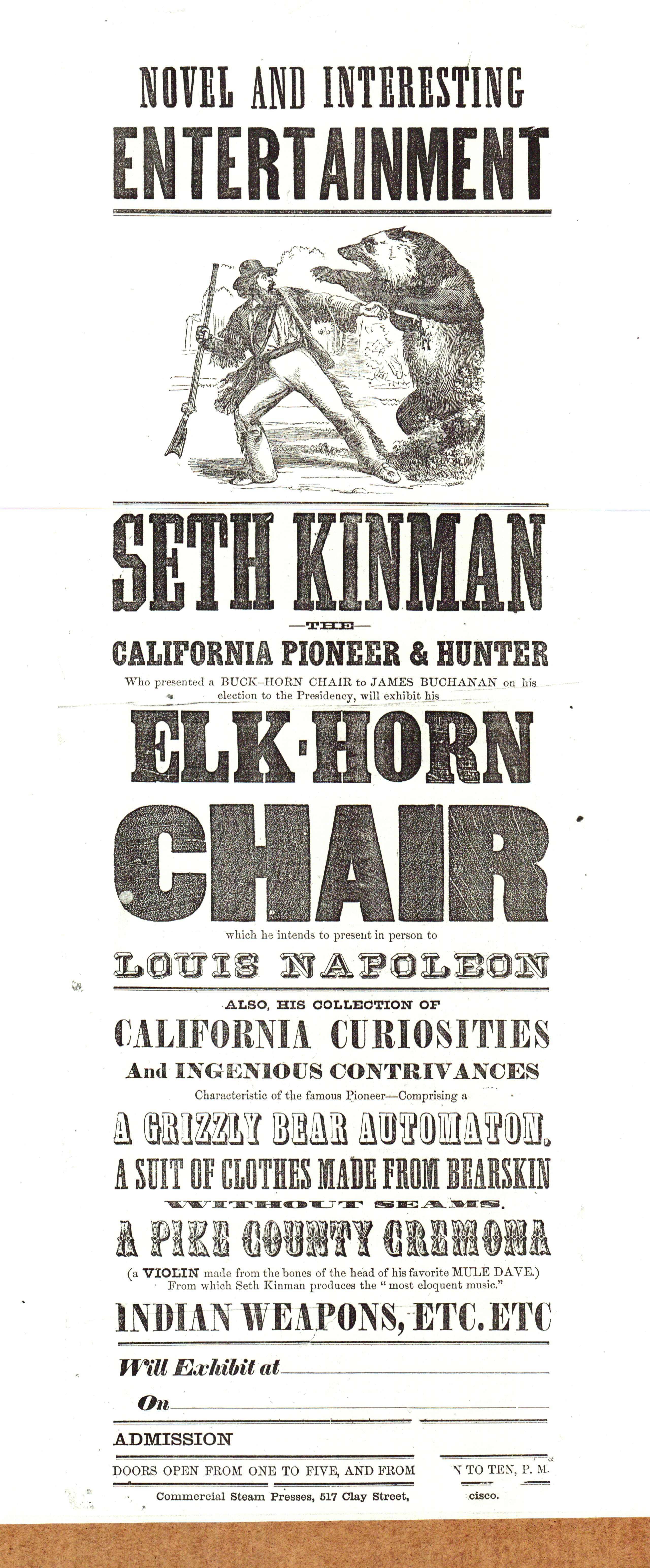 Advertisement for November 9, 1861 exhibition, likely in a San Francisco newspaper, by Seth Kinman (ad and exhibition)